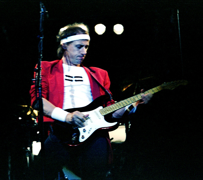 Dire Straits, 12th July 1983, Stadion Kranjčevićeva, Zagreb